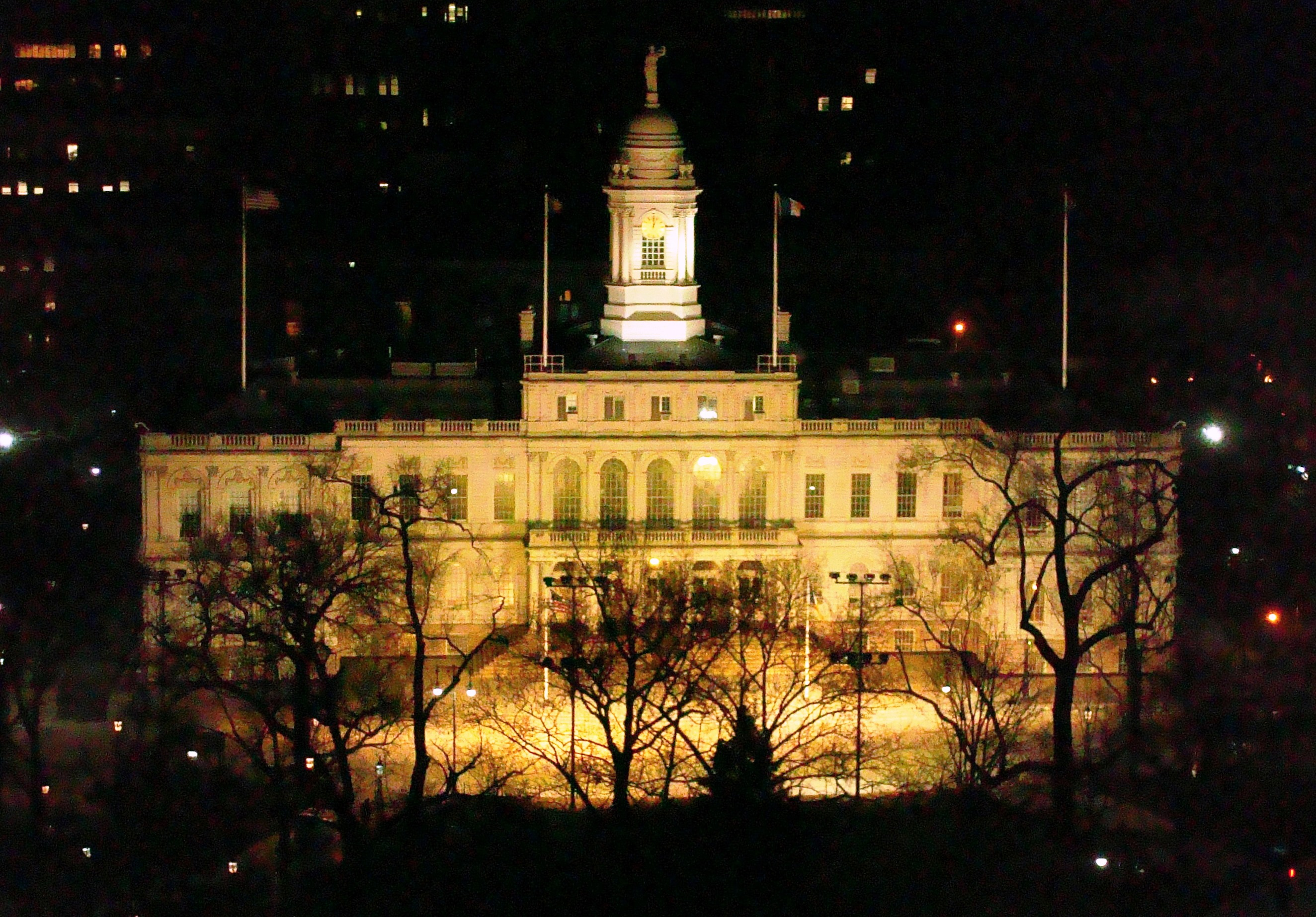 City Hall New York City - Evening